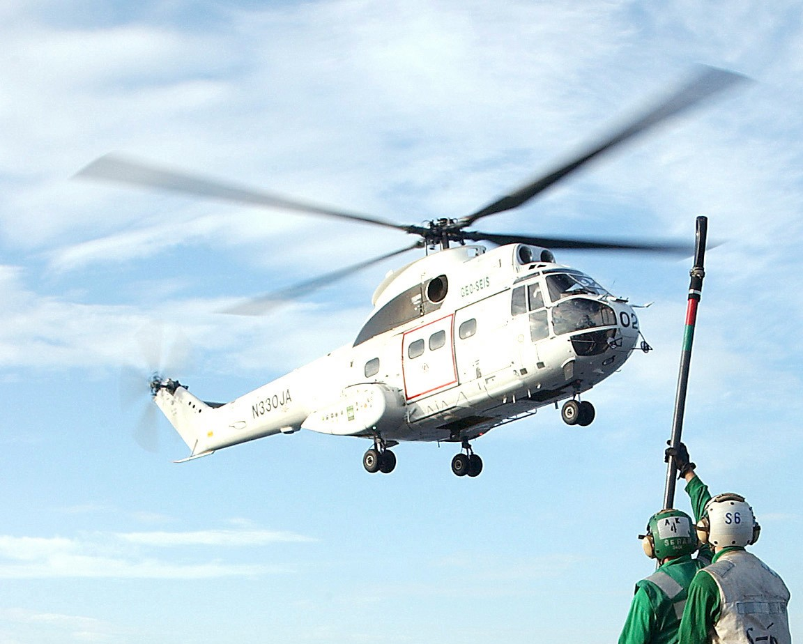 At sea aboard USS George Washington (CVN 73) Oct. 26, 2002 -- Flight deck personnel attach a cargo line to an SA-330 "Puma" helicopter during an underway vertical replenishment operation. U.S. Navy photo by Photographer's Mate Airman Konstandinos Goumenidis. (RELEASED)